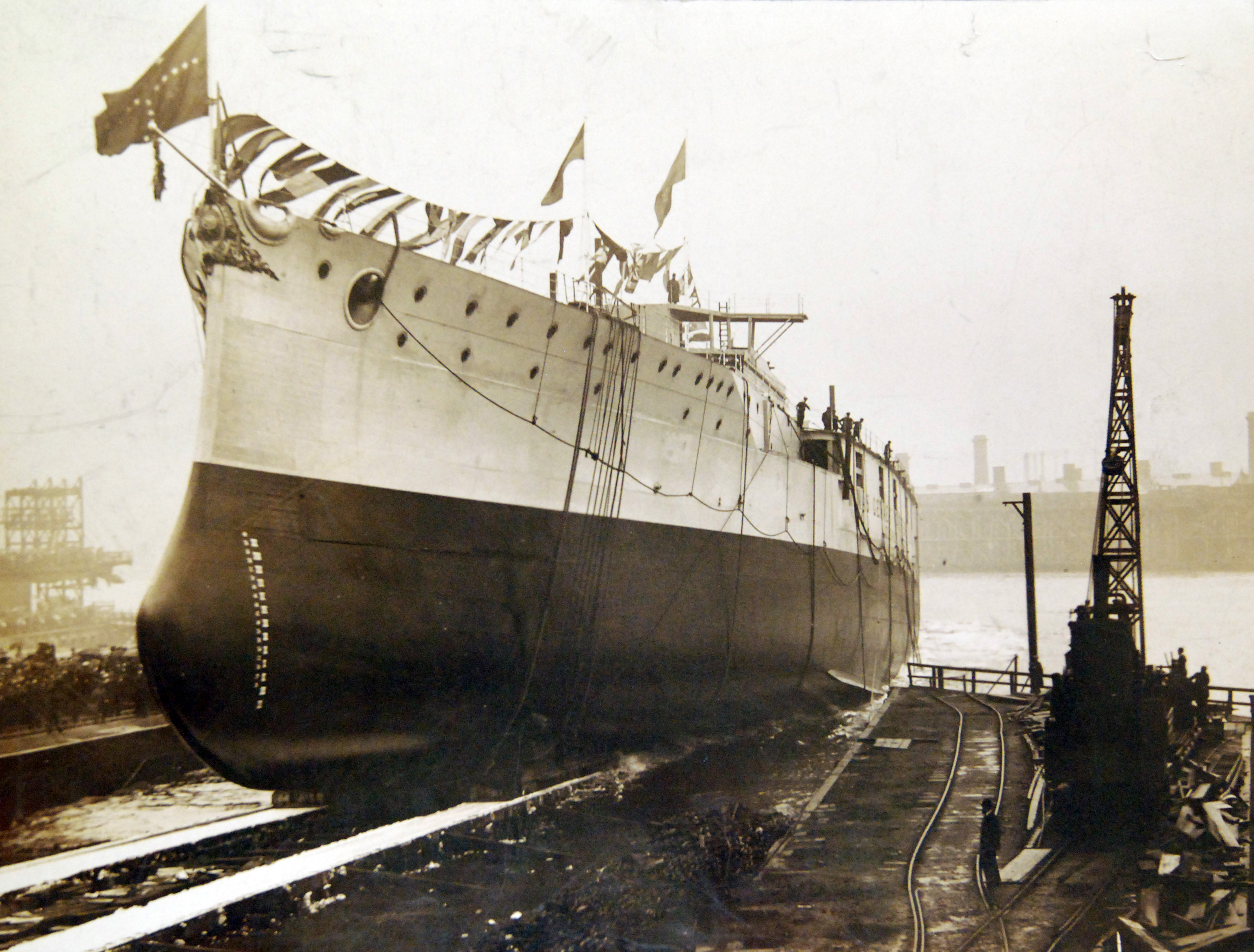 Lot-11256-3: Brazilian battleship, Minas Geraes (1910-1952), launching. Bain Collection. Courtesy of the Library of Congress. (2017/08/04).